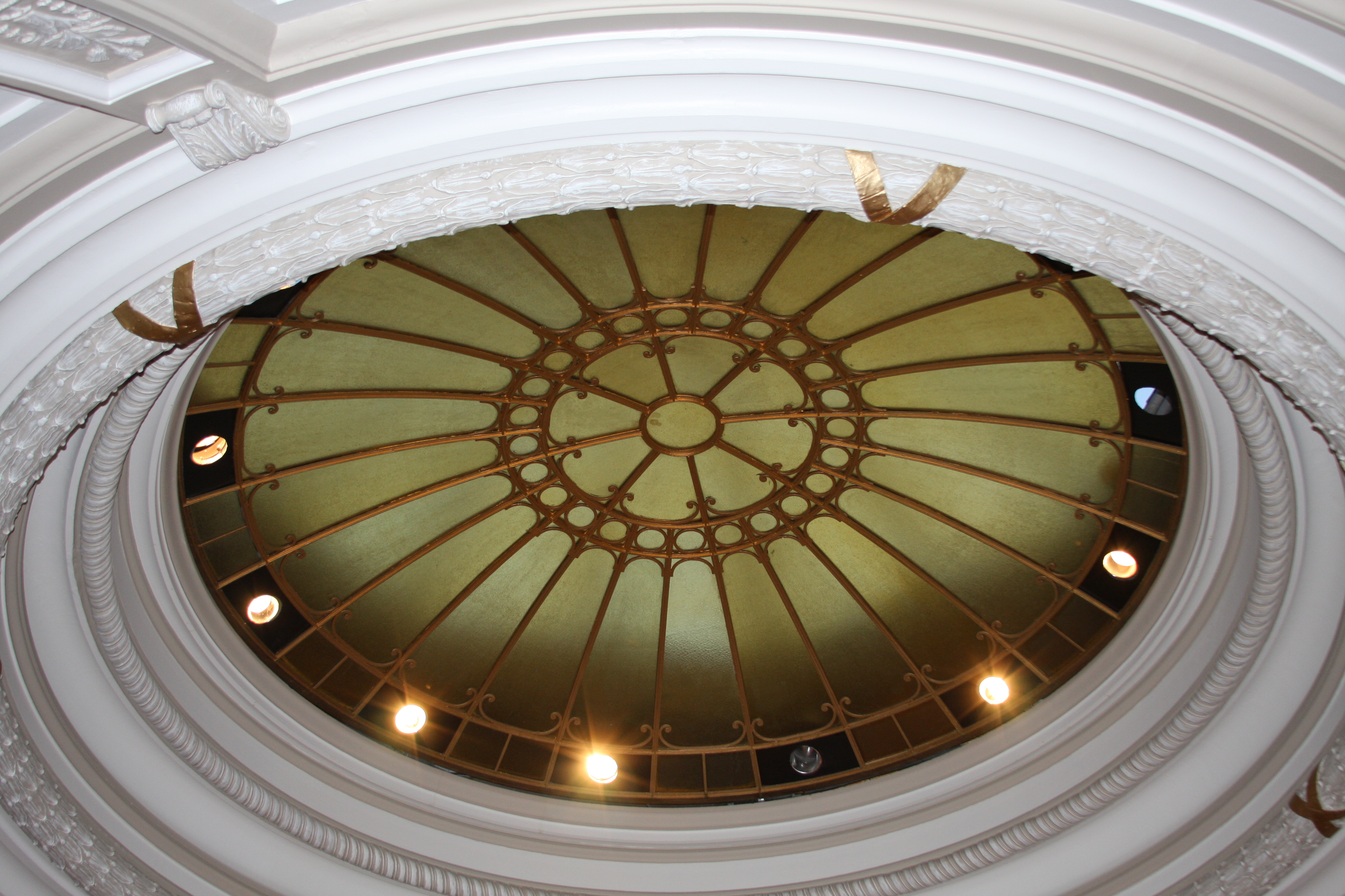 Skylight dome in the Rotunda of the Manchester City Library main buildling